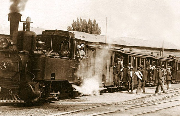 The type 'a' 0-6-2T steam locomotive No. 1 Presidente Montt' at Puente Alto in 1910, which might have been re-numbered to No. 4 'Panchita'.